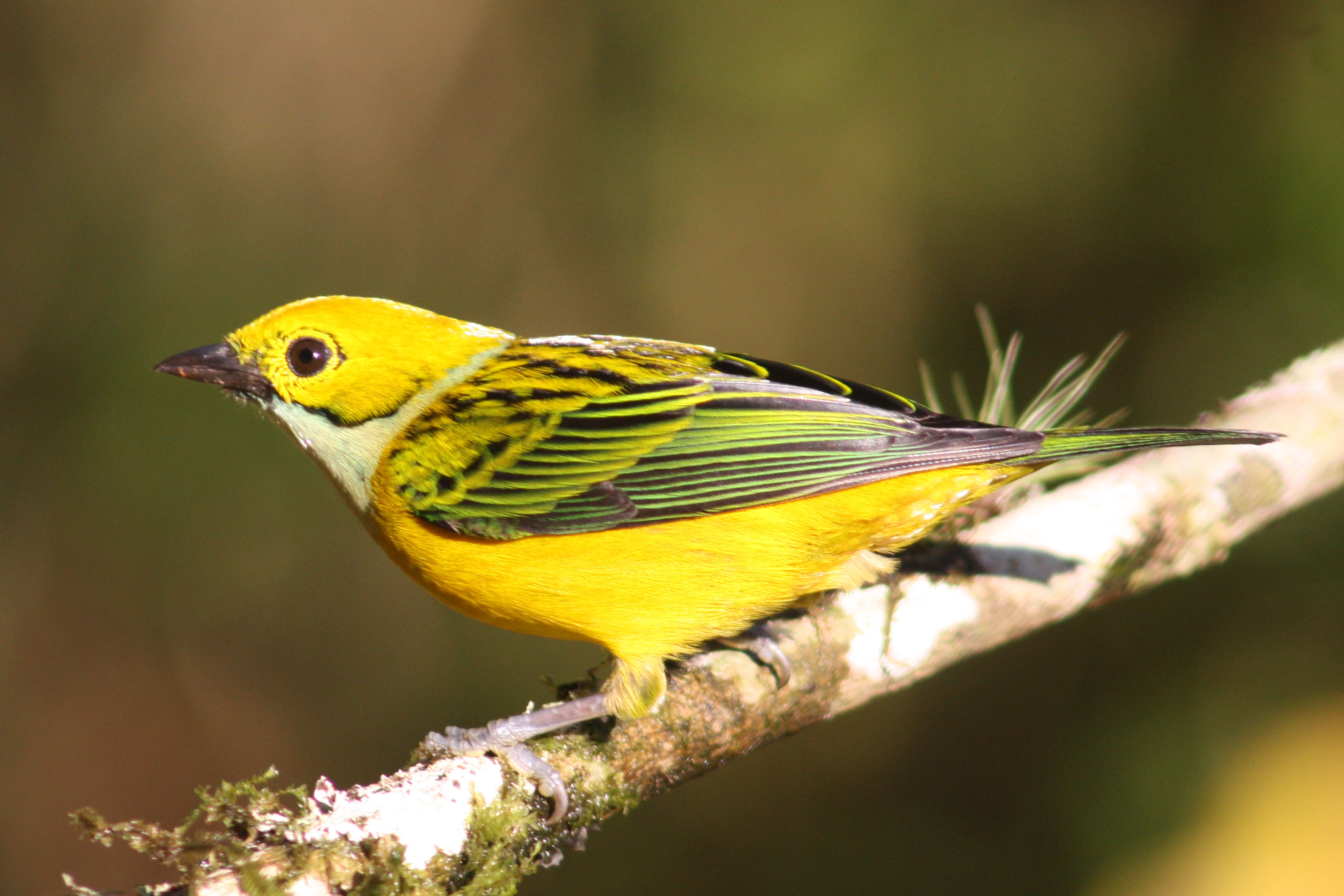 Silver-throated tanager (Tangara icterocephala frantzii), Bajos del toro, Costa Rica